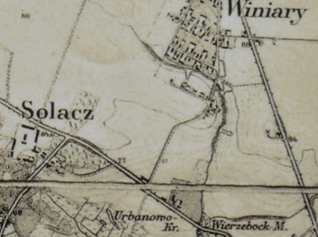 Poznan - Winiary, old map.